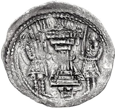 Fire attendants wearing the kaftan and holding swords on the coinage of Kidara